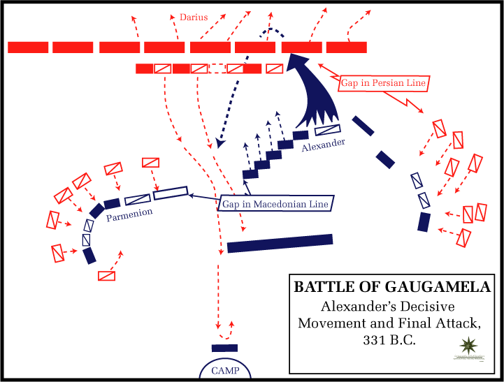 The Battle of Gaugamela, Alexander's Decisive Movement, 331 B.C.